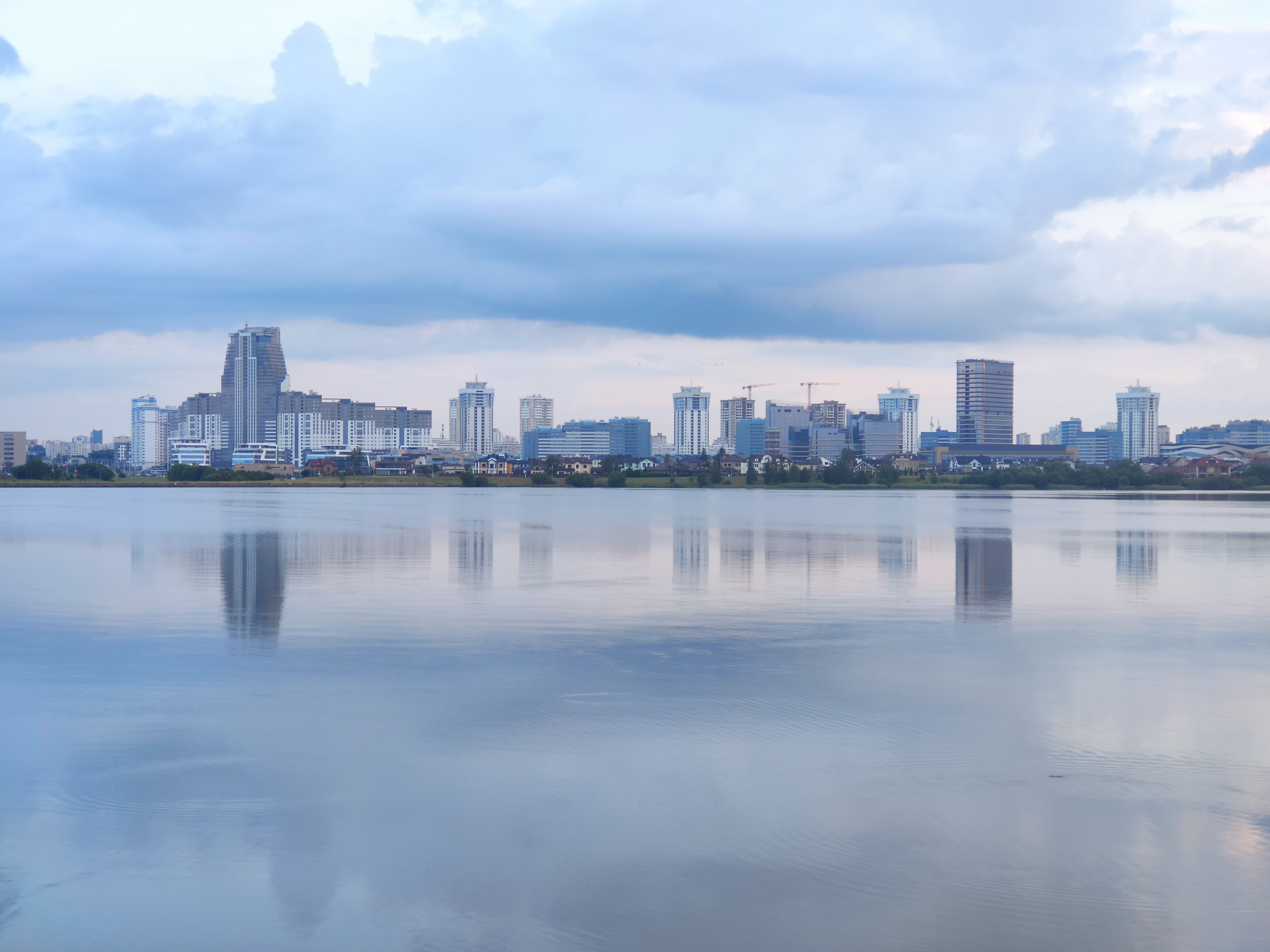 Minsk city skyline